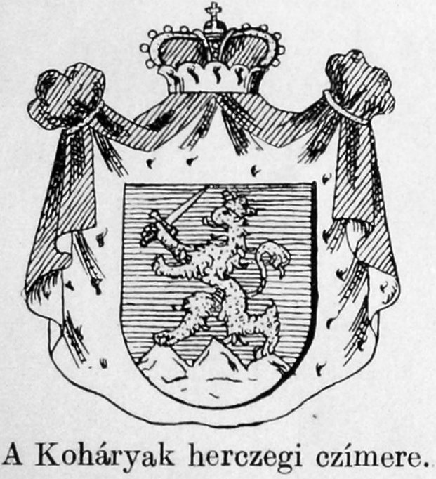 Coat of arms of House of Koháry